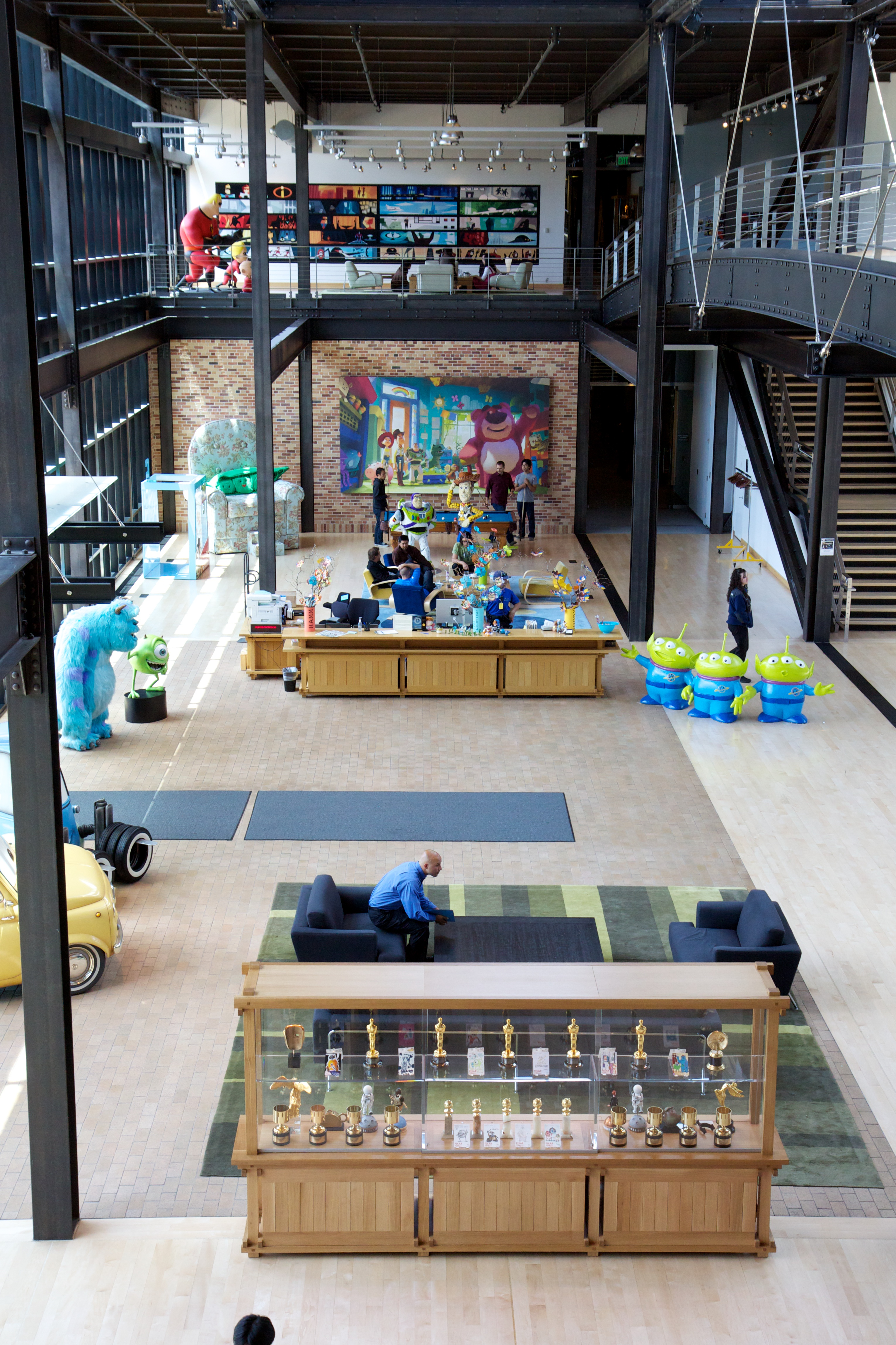 Some of the awards Pixar received for their films, exhibited in the atrium of the Pixar campus in Emeryville, California.